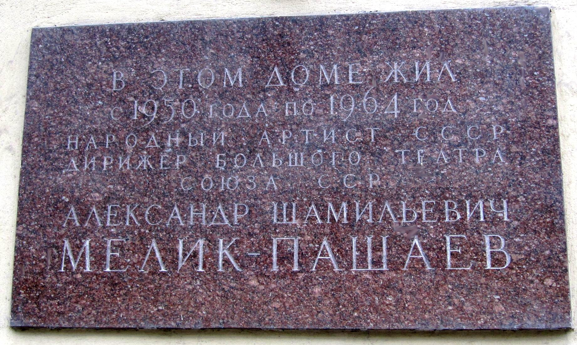 Conductor of the Bolshoi Theatre Alexander Melik-Pashayev lived in this house in 1950-1964 (Moscow, Tverskaya Str.25)